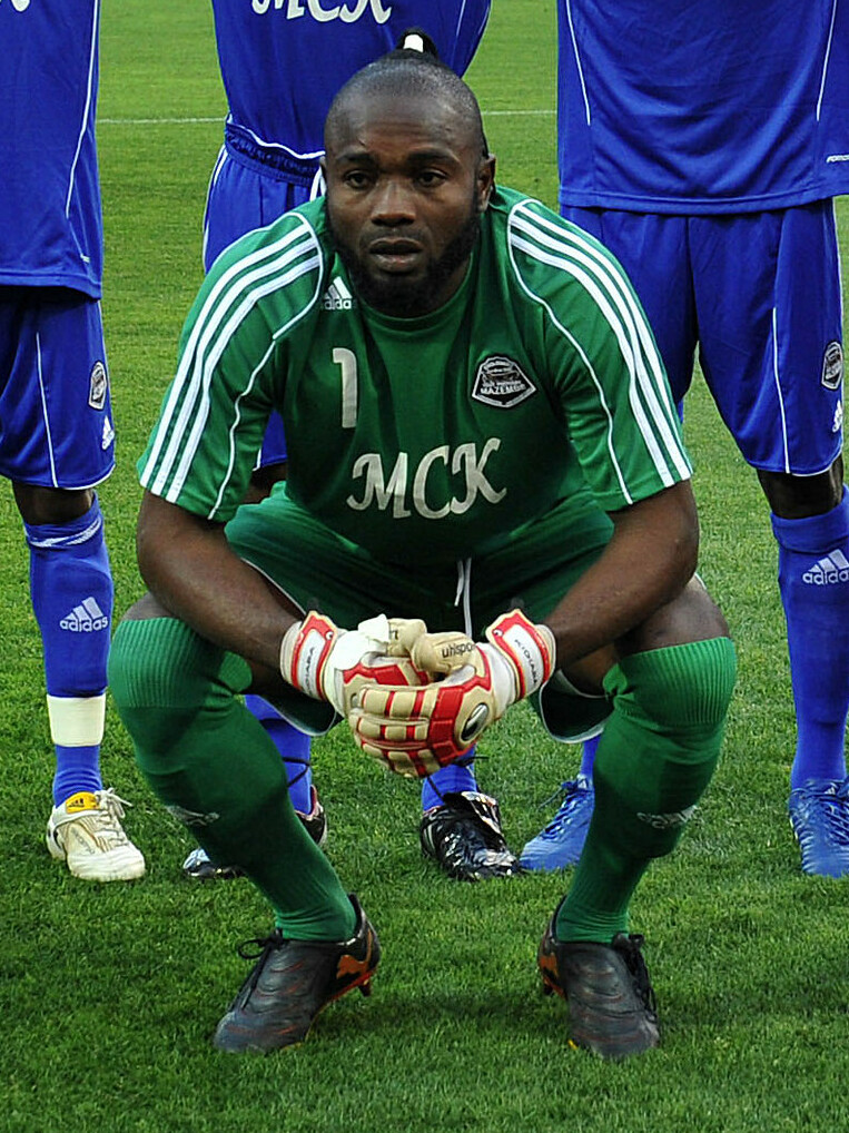 TP MAZEMBE